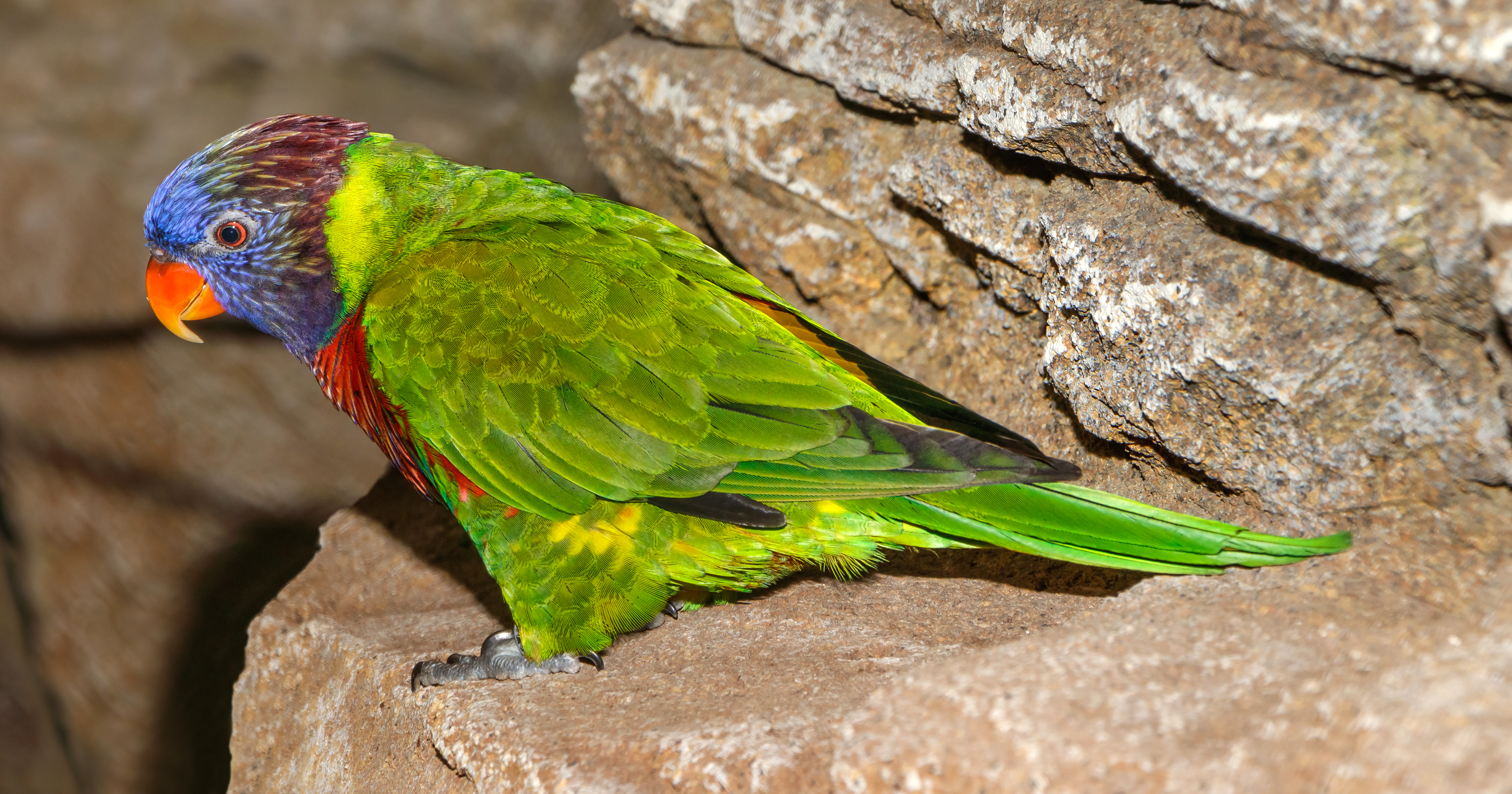 Trichoglossus haematodus deplanchii J. Verreaux & Des Murs, 1860, Deplanche's lorikeet; Karlsruhe Zoo, Karlsruhe, Germany.